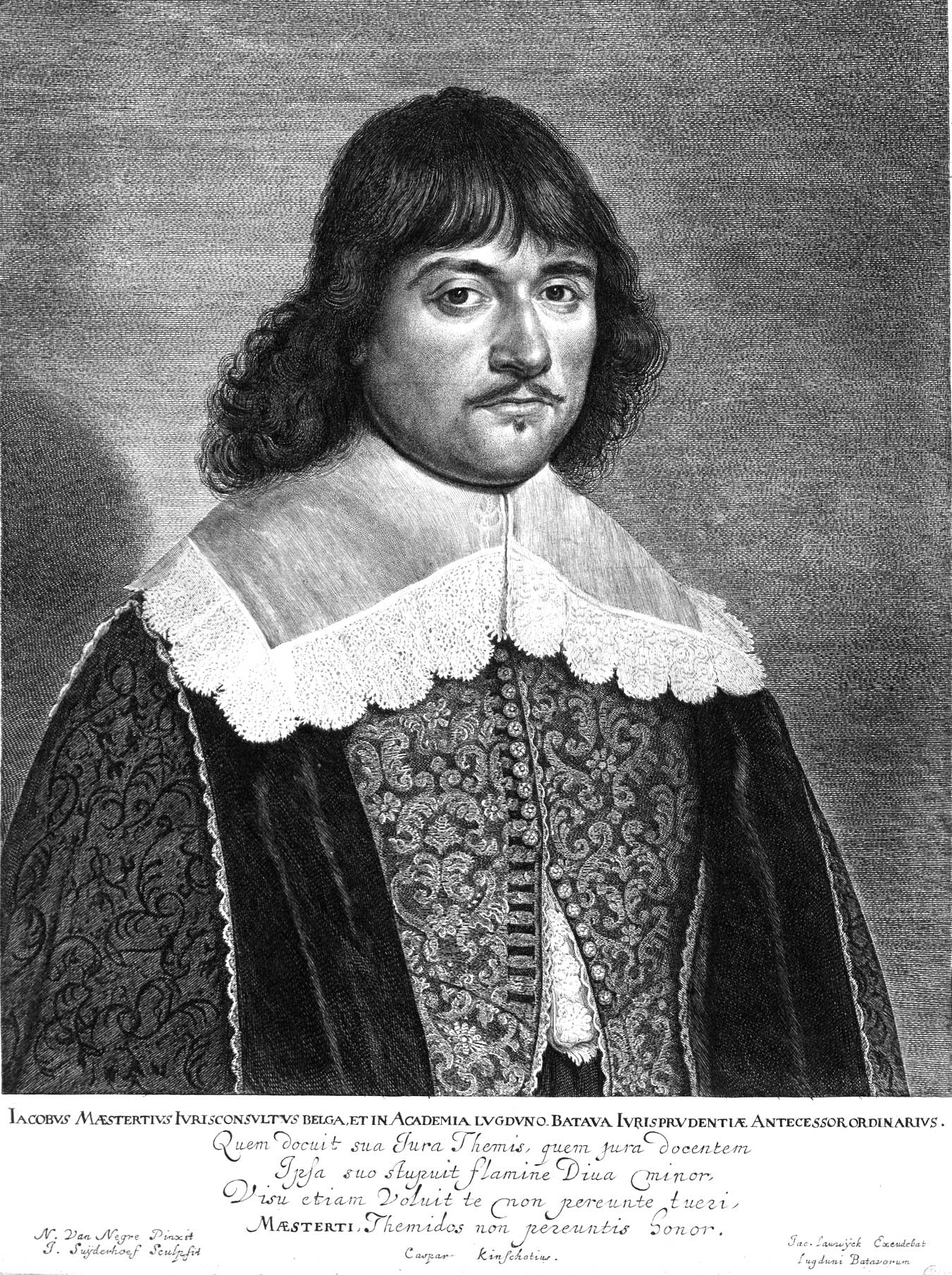 Maestertius Jacobus (1610-1658) Belgian lawyer